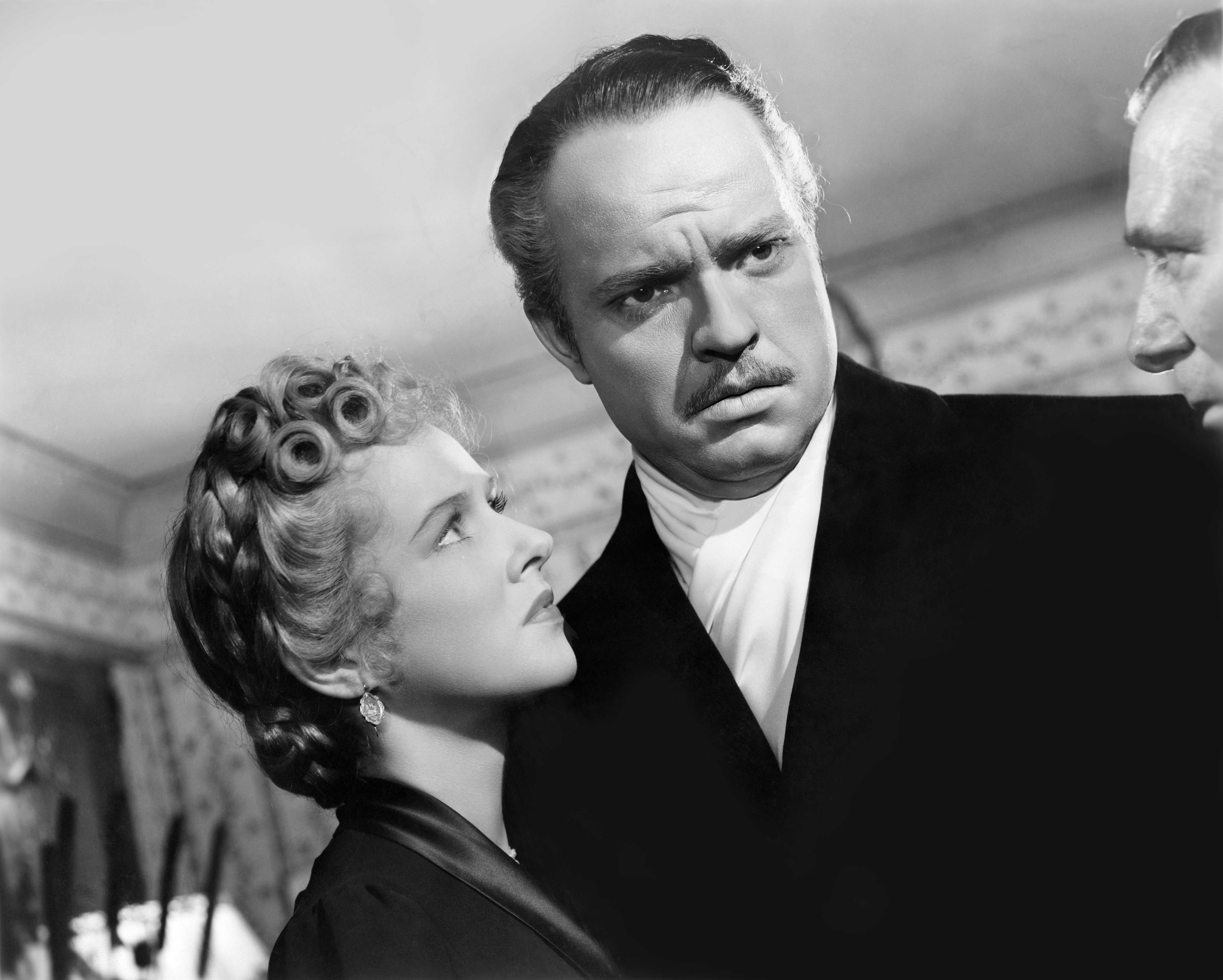 Promotional still for the 1941 film Citizen Kane Image is marked CK-48 at lower right